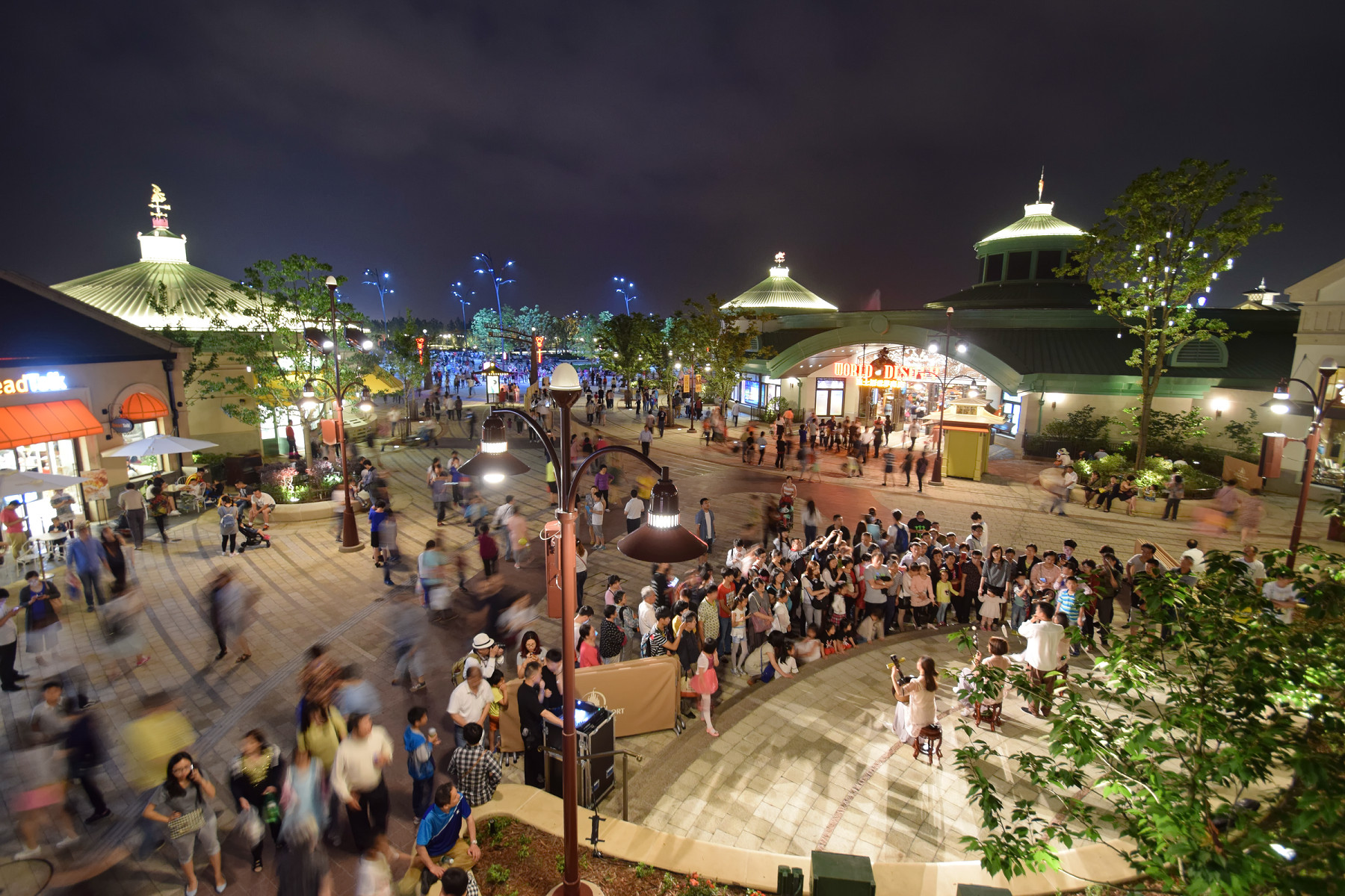 Market Place, Disney Town, Shanghai Disney Resort